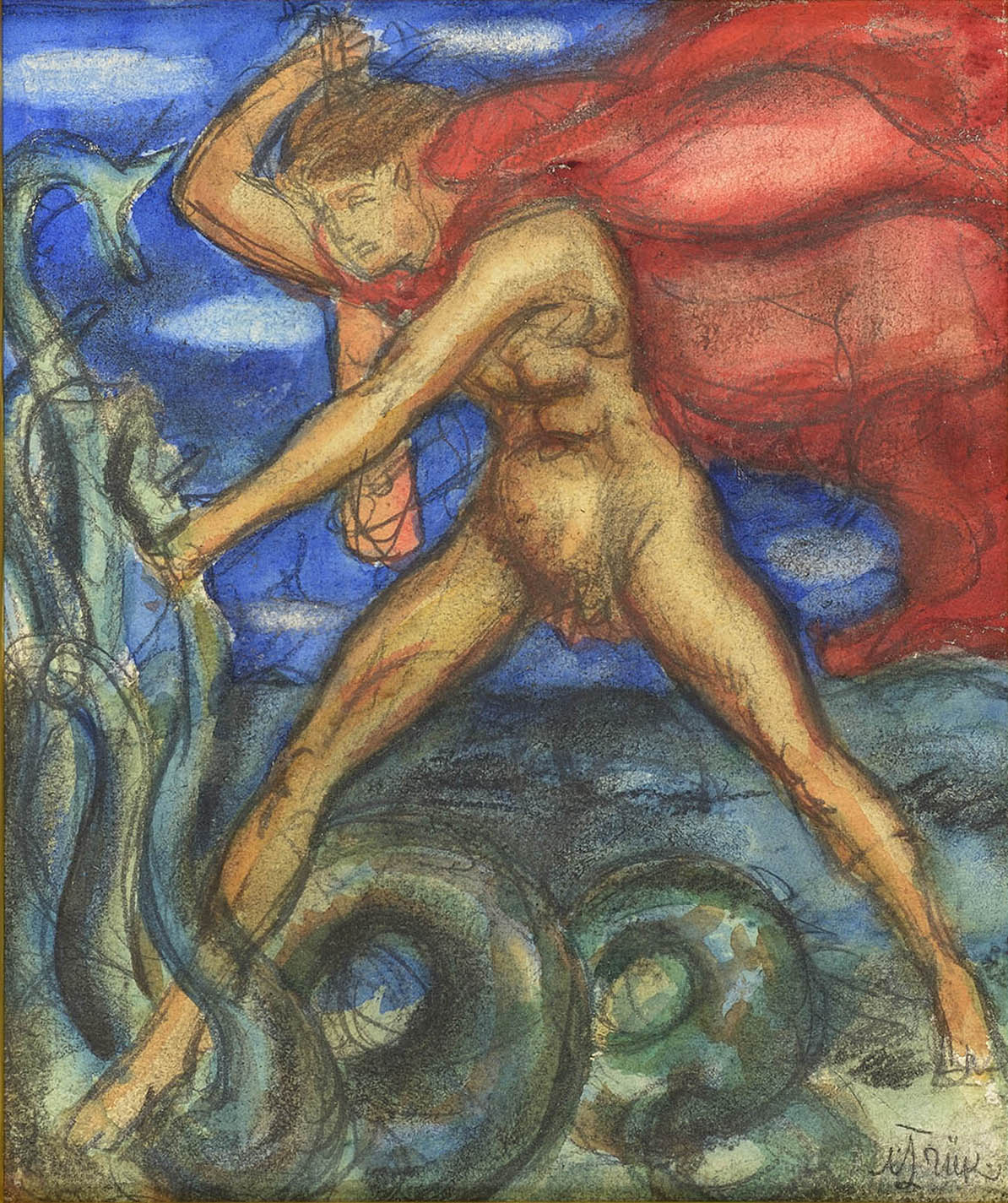 Nikolai Triik "Fight with Hydra"